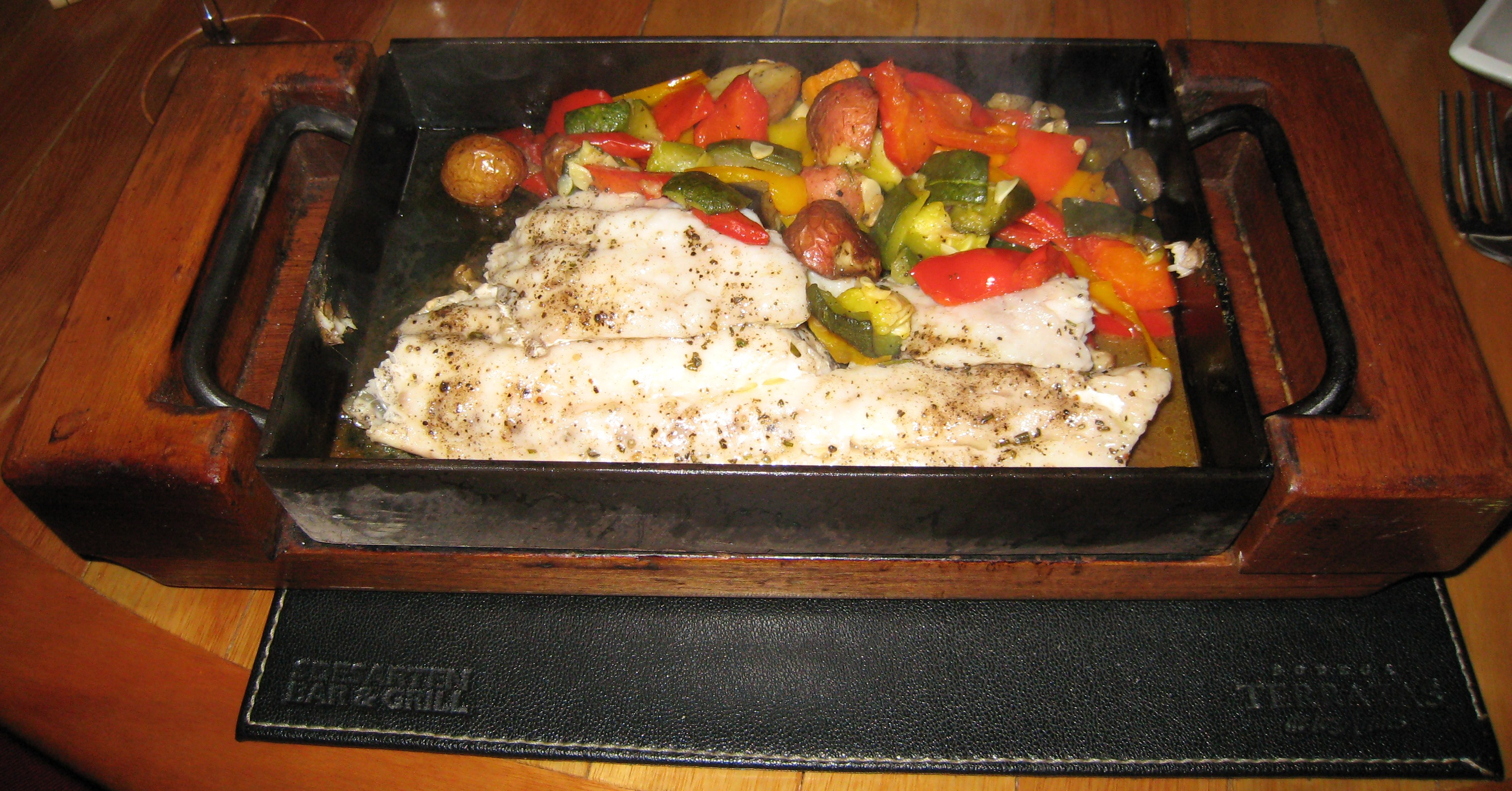 Fish in a box, Montevideo